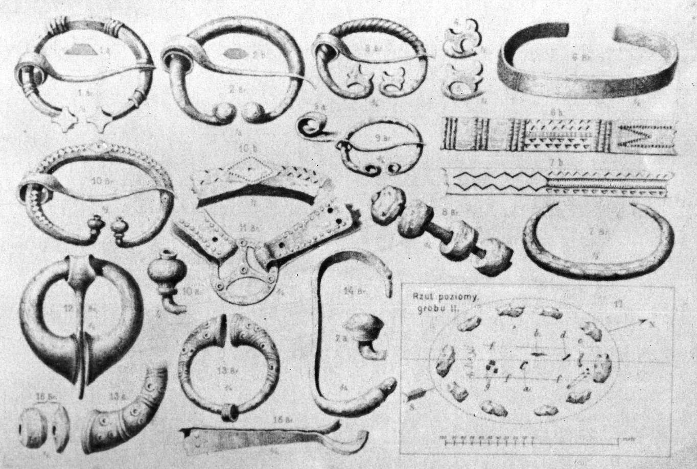 (Imbarė cemetery)